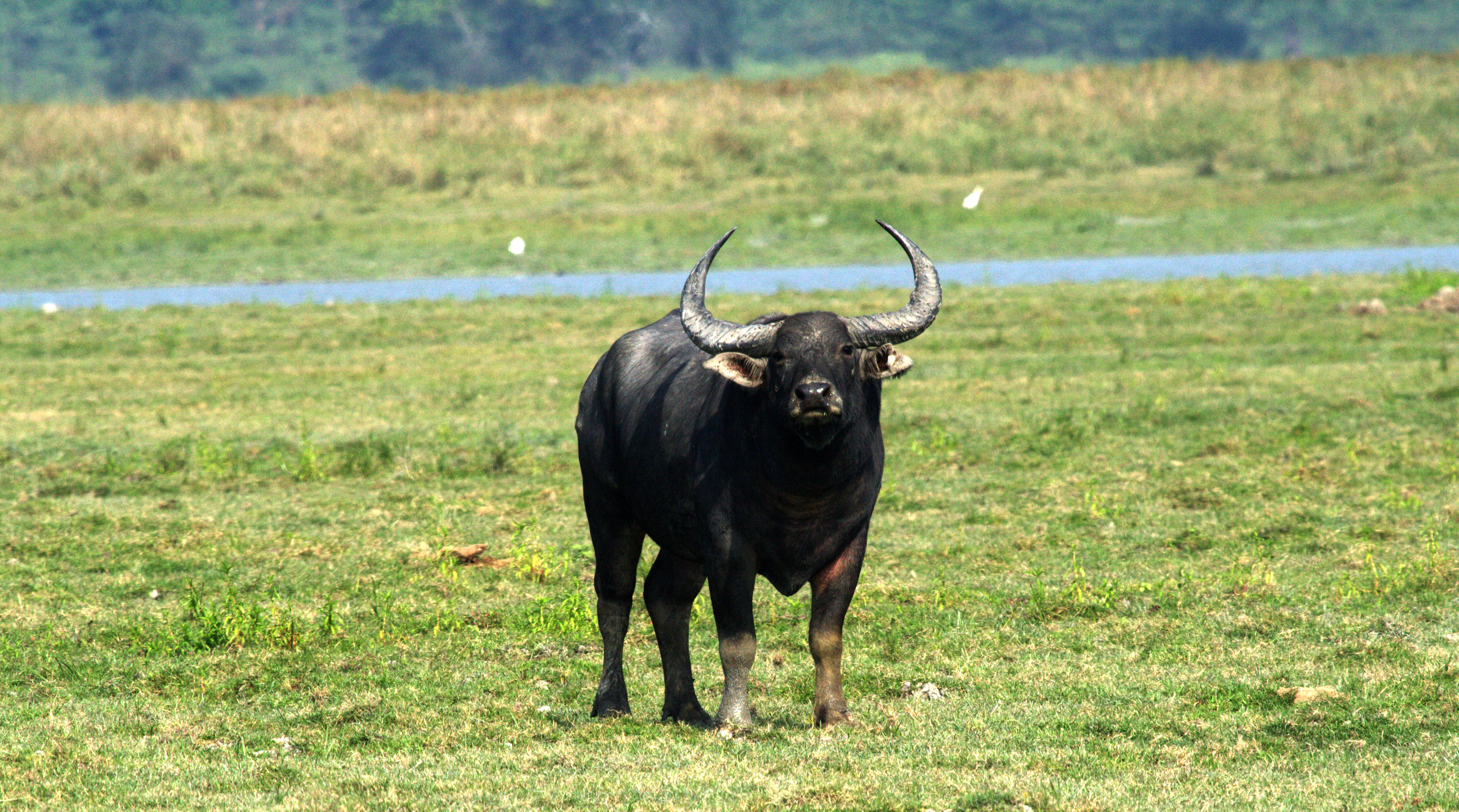 Indian Water Buffalo Bubalus arnee. Also called Asian Buffalo and Asiatic Buffalo.